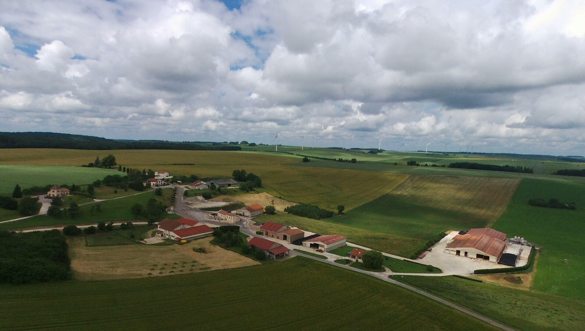 Photo relative à la commune d’Aingoulaincourt dans le but d’enrichir la page Wikipedia existante, il y a la photo d’Aingoulaincourt , et de son Église ( aussi intérieur)